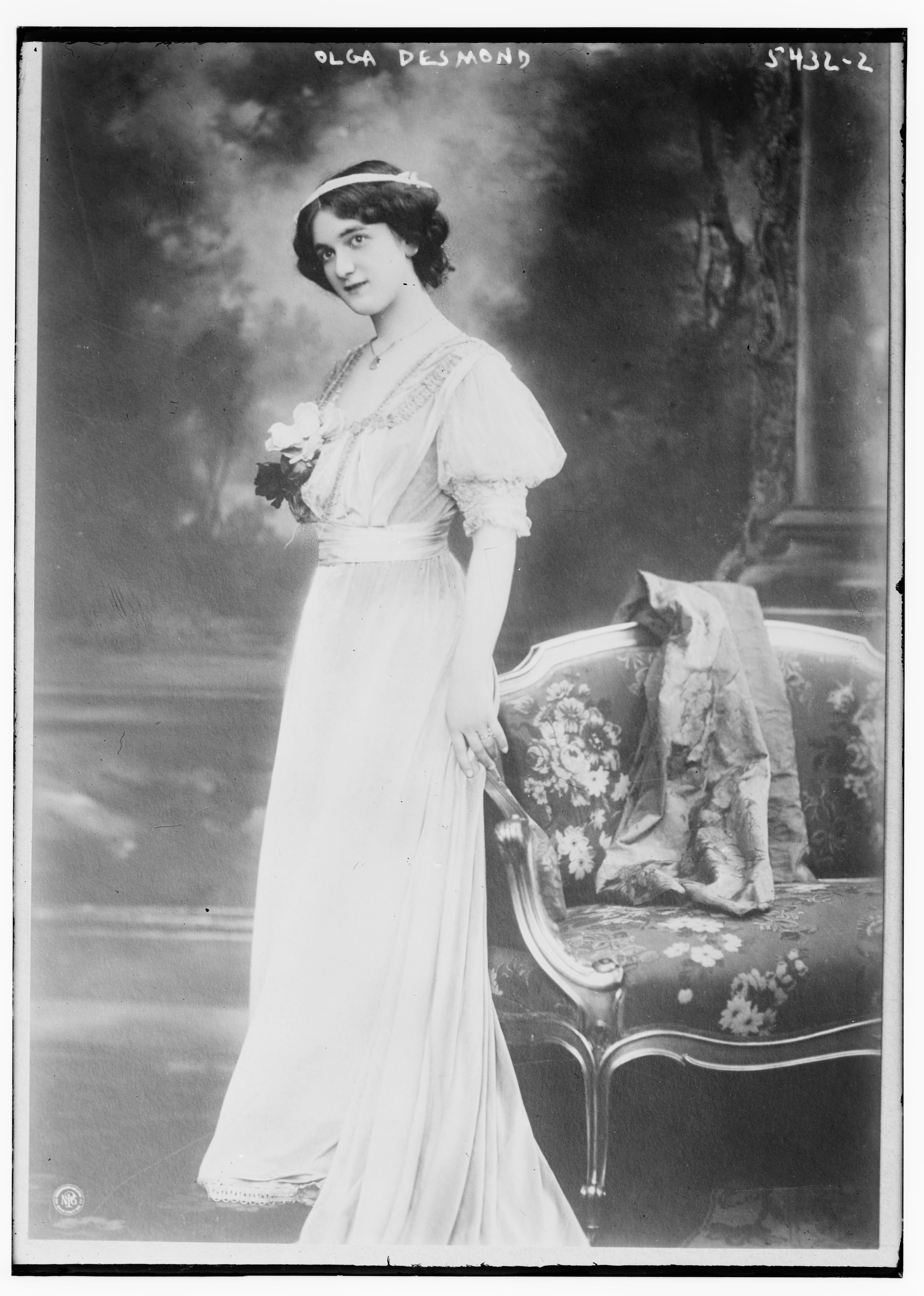 Title: Olga Desmond Abstract/medium: 1 negative : glass ; 5 x 7 in. or smaller.